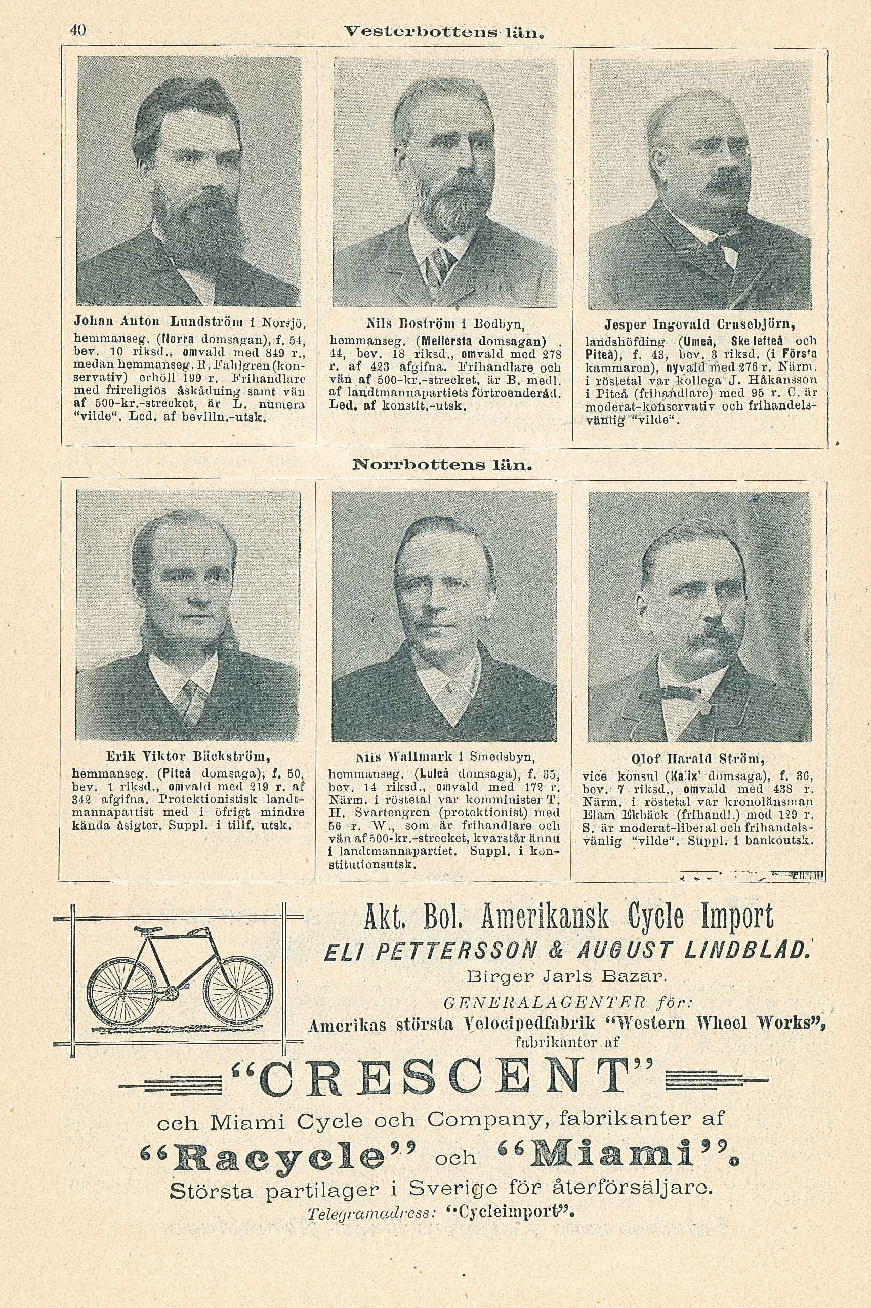 Page 40 of an album featuring portraits of all the members of the second chamber of the Swedish parliament (Sveriges riksdag) elected in 1897. This page featuring parts of the members representing the counties of Västerbotten and Norrbotten.